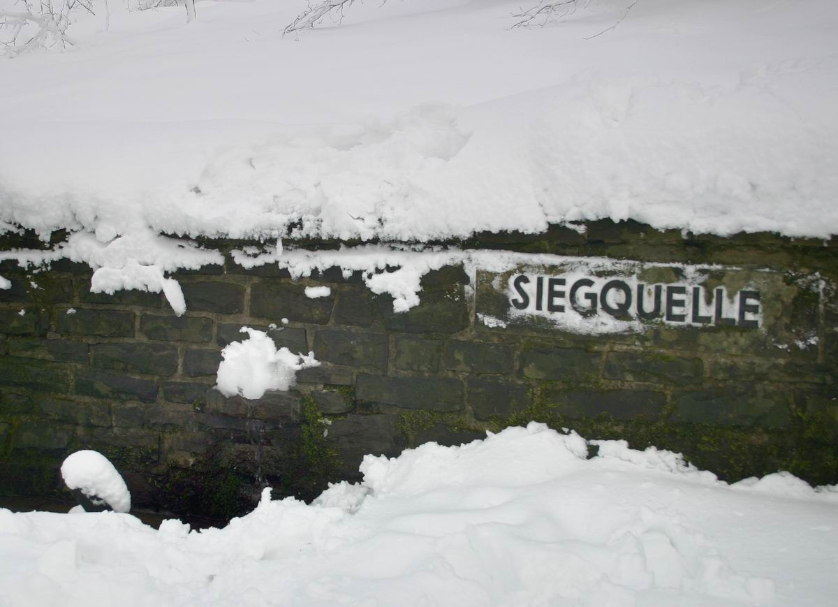 Photo of the source of river Sieg in Rothaargebirge, Germany, in winter.